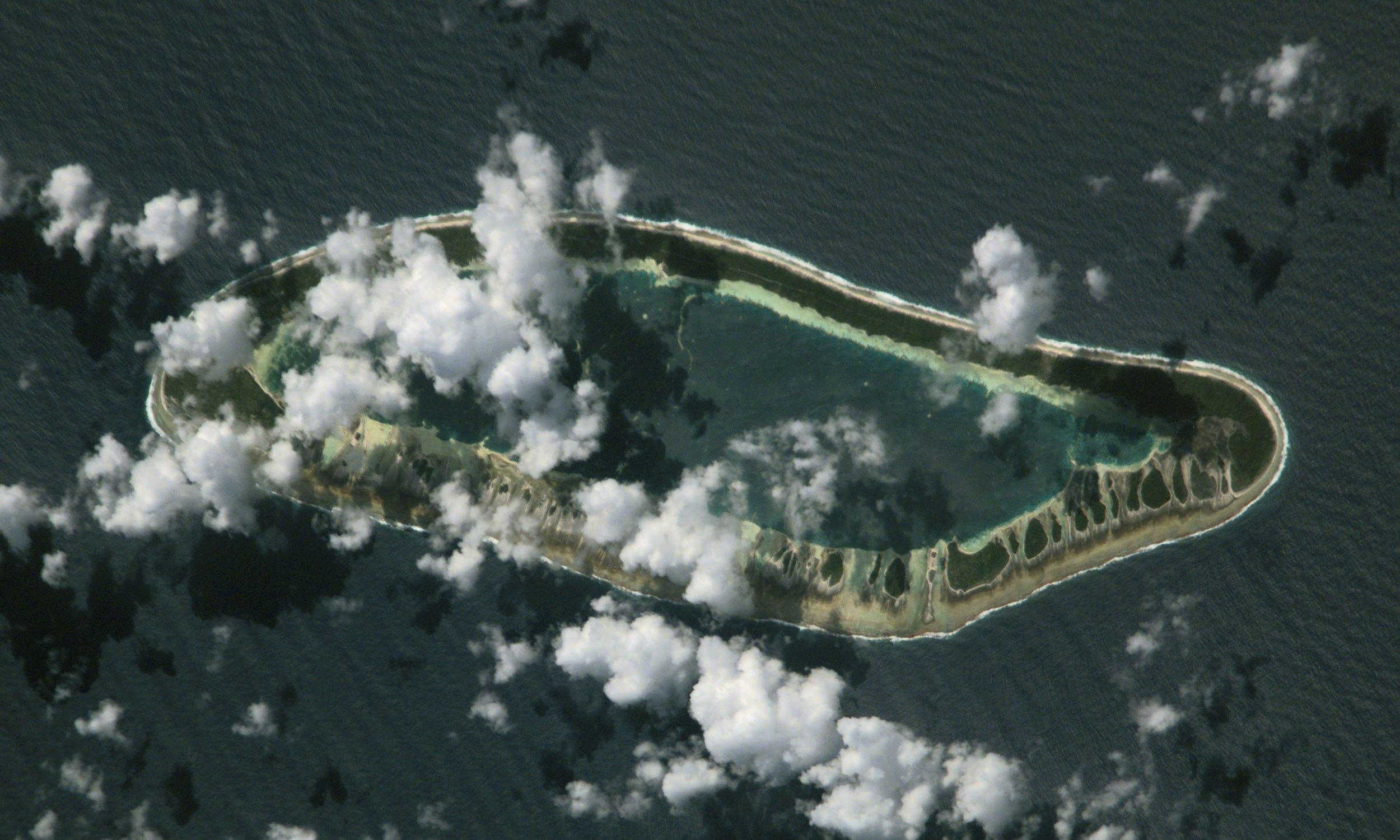 NASA astronaut image of Tatakoto Atoll (Tuamotu Archipelago, French Polynesia) in the Pacific Ocean